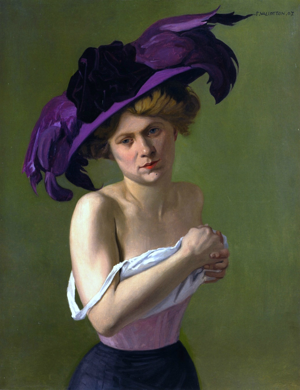 The violet hat, former collection Arthur et Hedy Hahnloser.